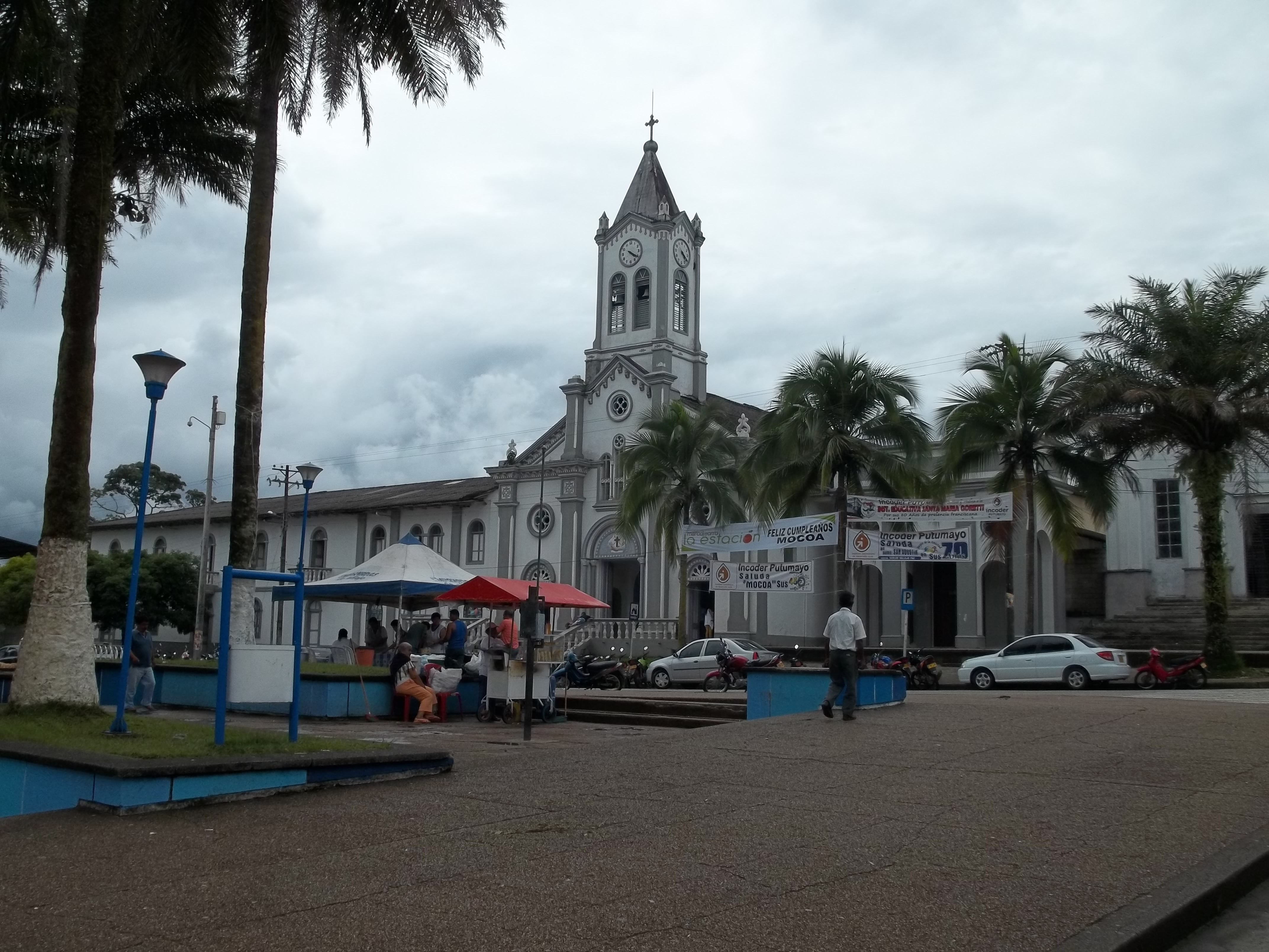 Panoramica de la ciudad Mocoa in 2017